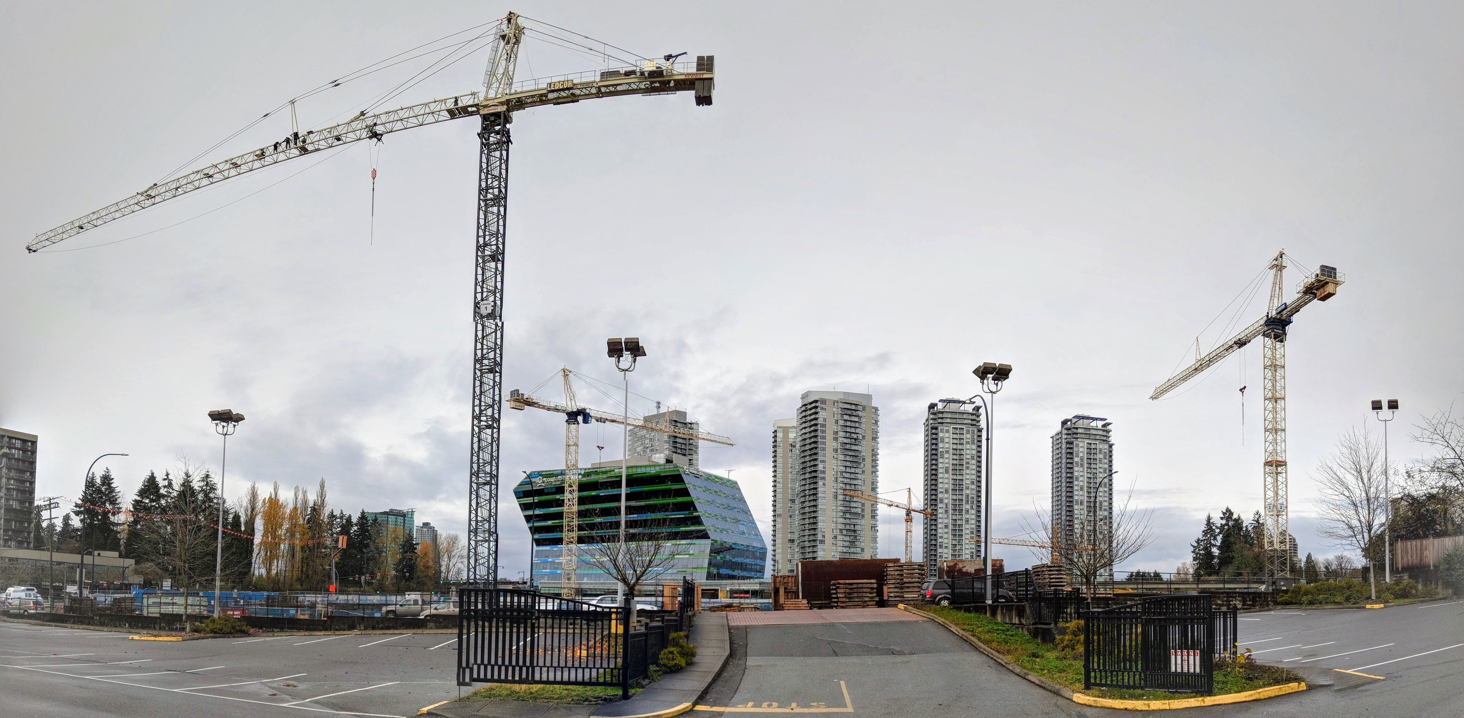 Construction of the second phase of King George Hub in Surrey, British Columbia. Two cranes, on the north side of the Expo Line guide-way, belong to the Park Boulevard development.